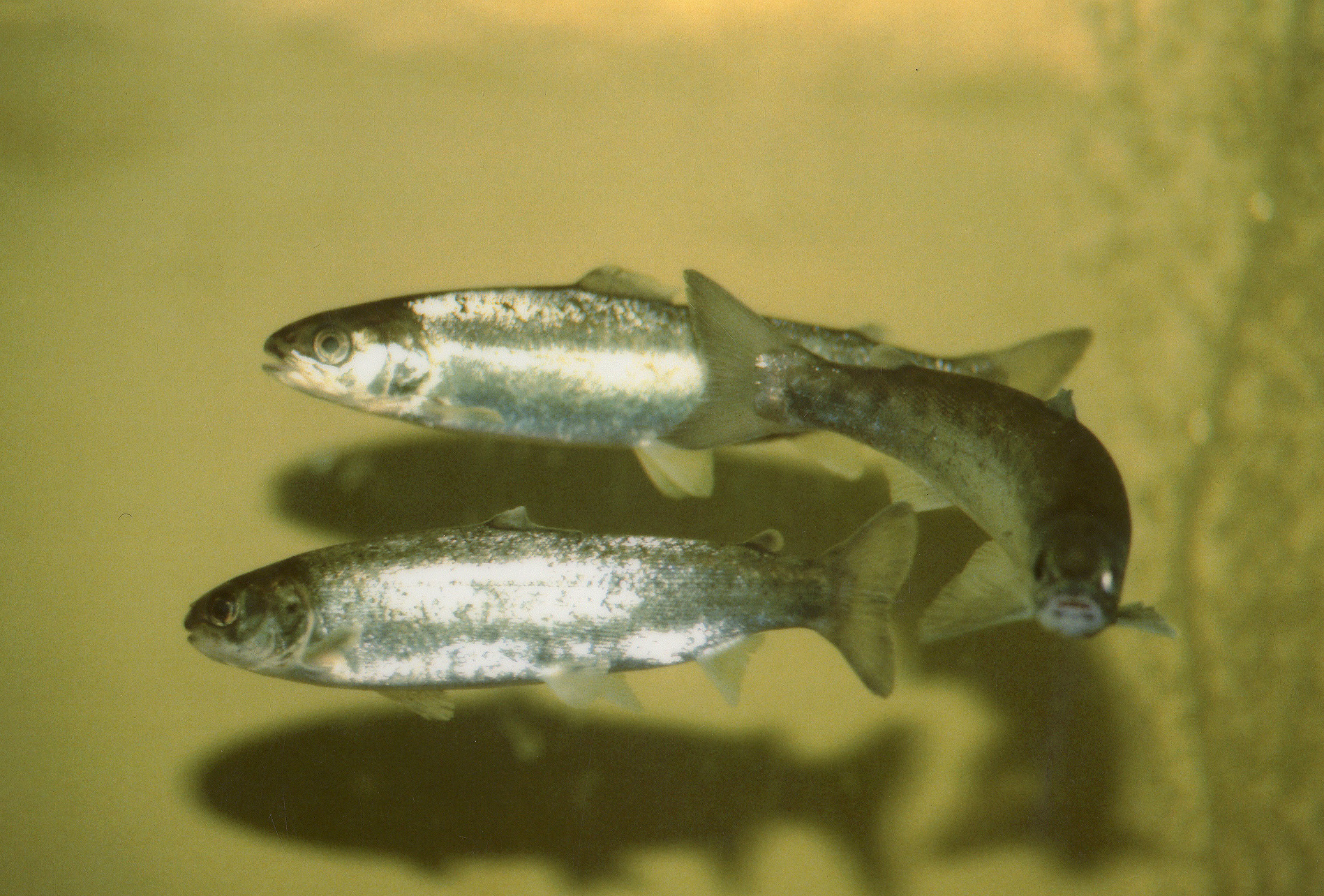 Atlantic salmon smolts